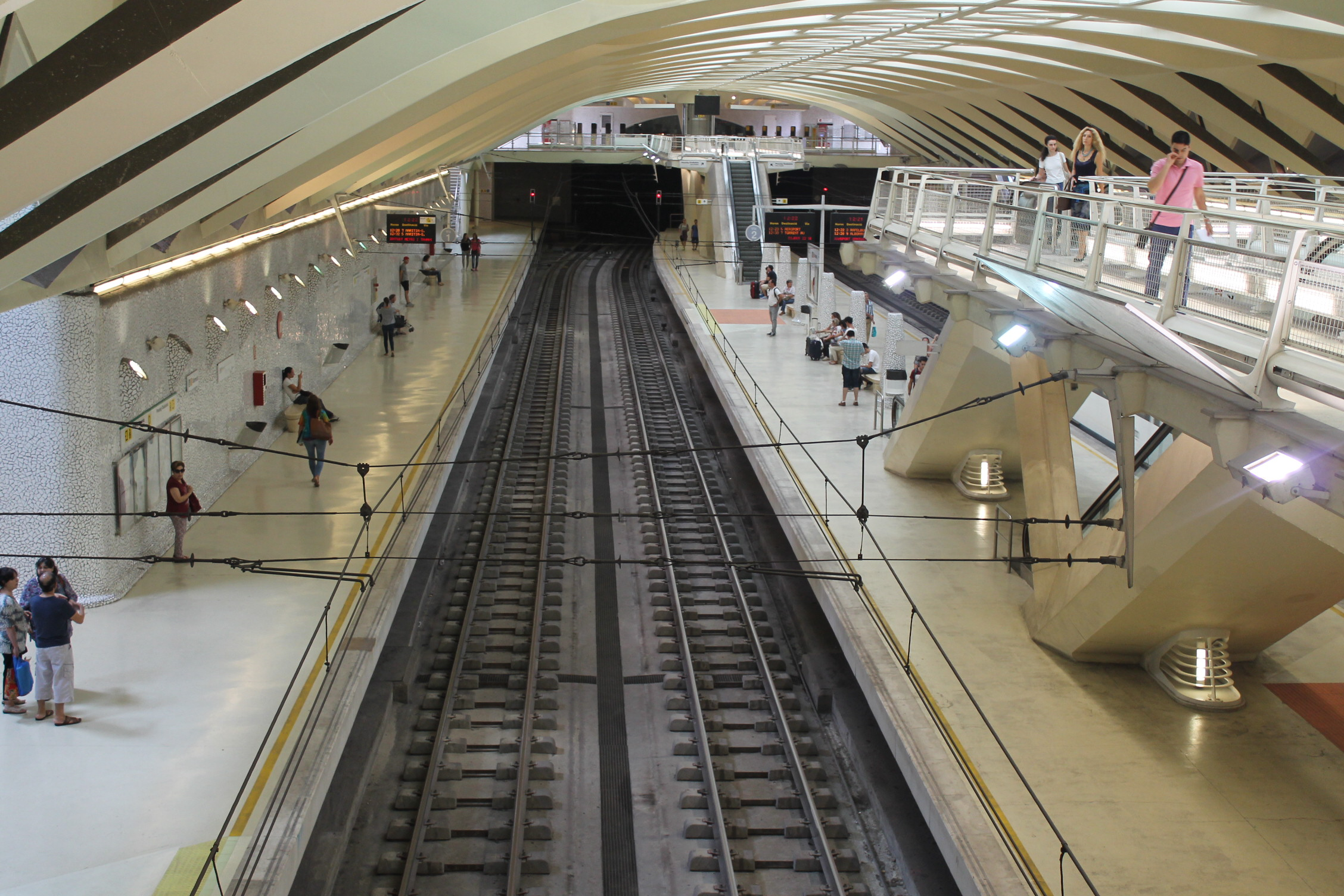 Platforms of the Alameda station of Metrovalencia.